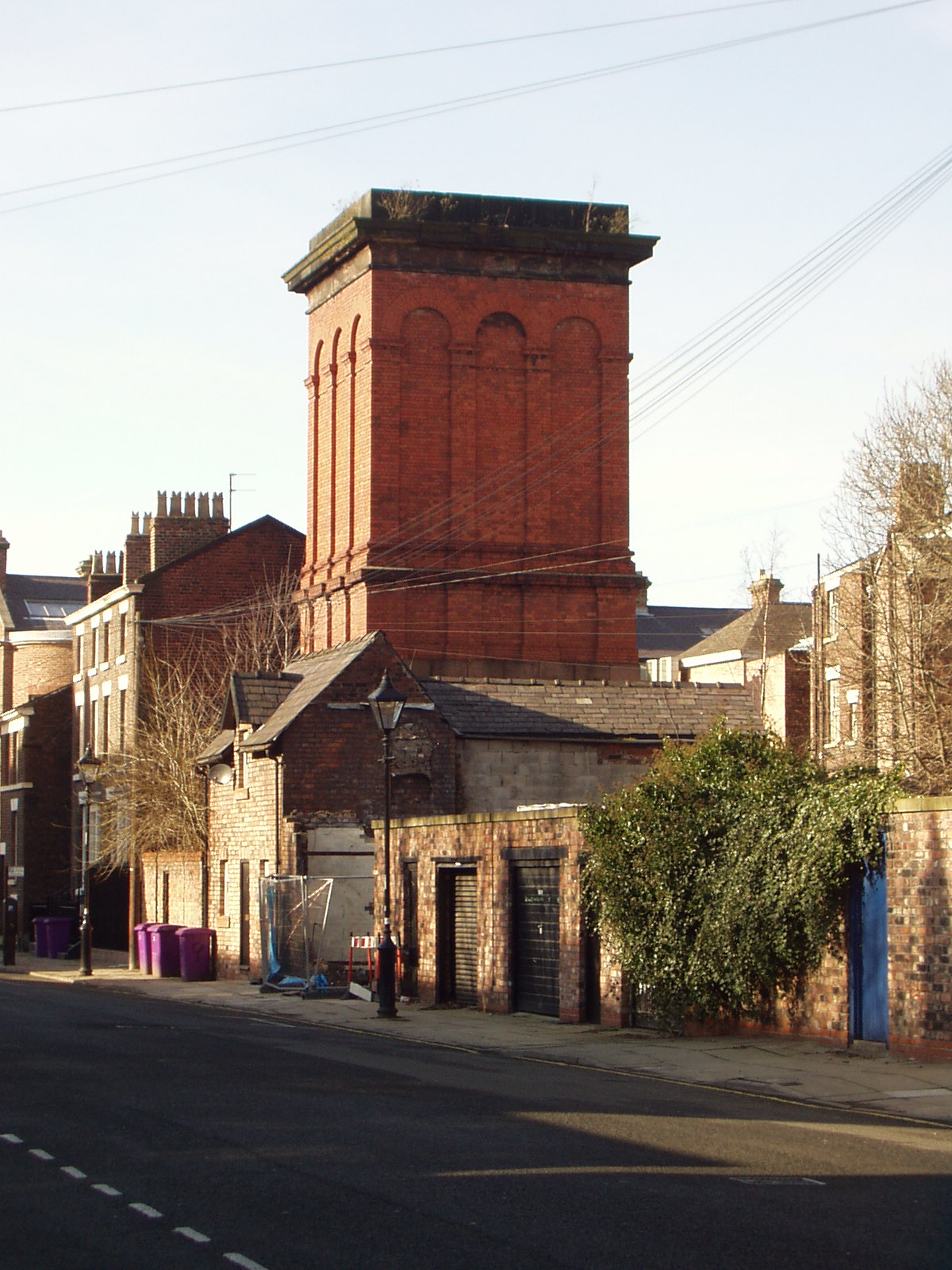 Brick ventilation shaft for the Wapping Tunnel (railway tunnel) in Blackburne Place, Liverpool, UK